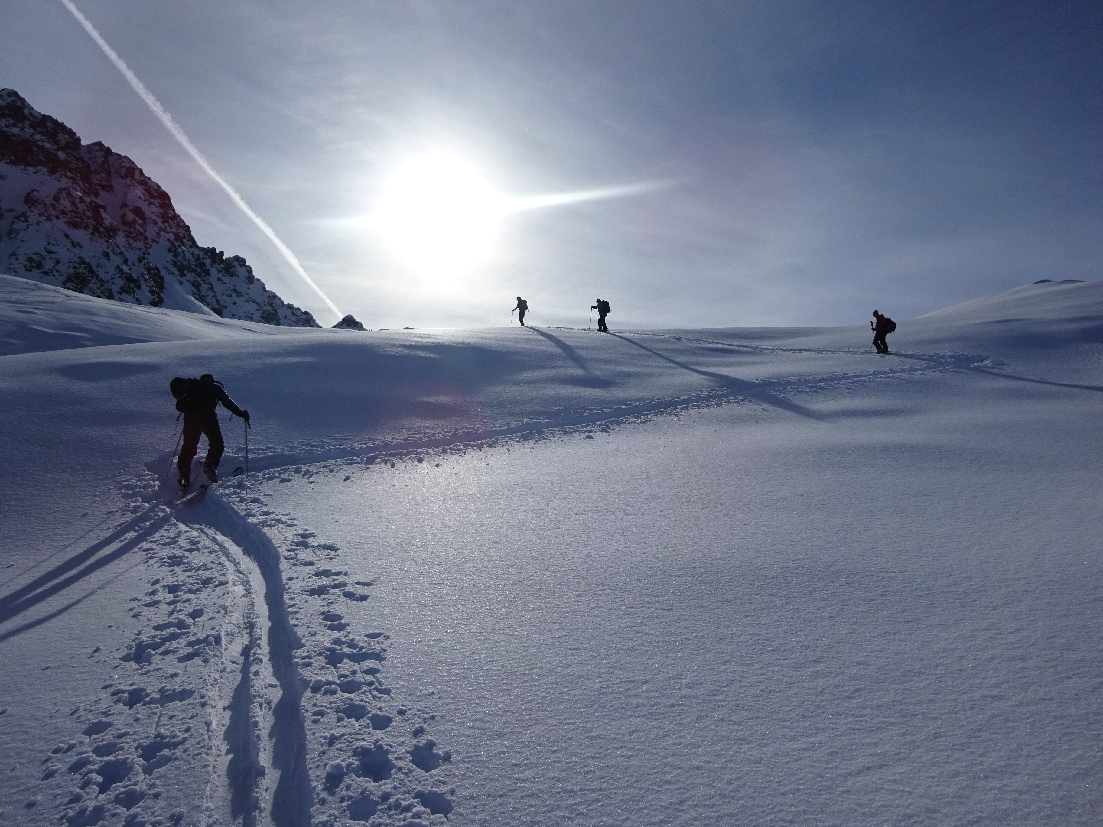 Ski Touring Chamonix Mont Blanc